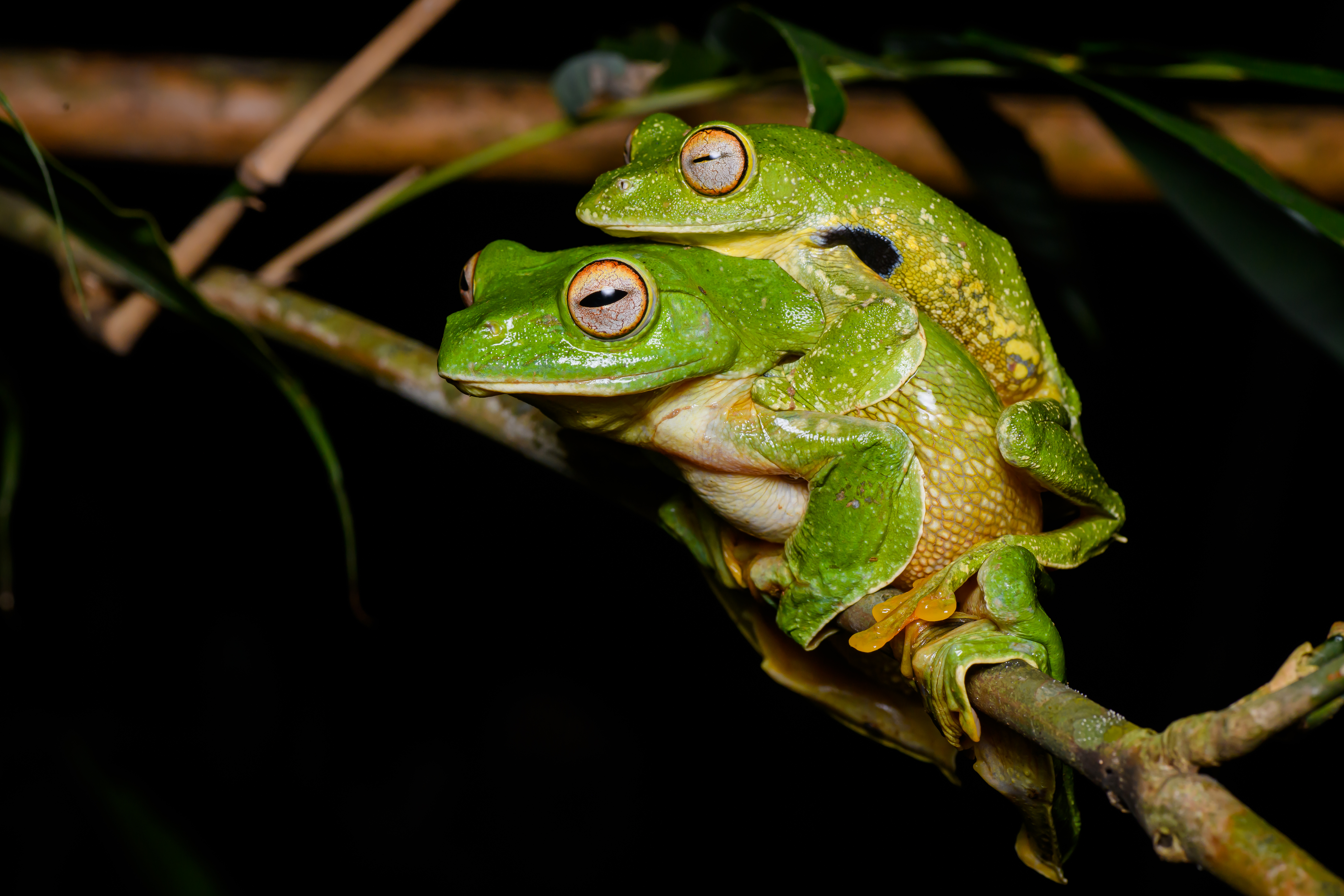 Mating black-webbed treefrogs (Rhacophorus kio). Kui Buri National Park, Thailand.